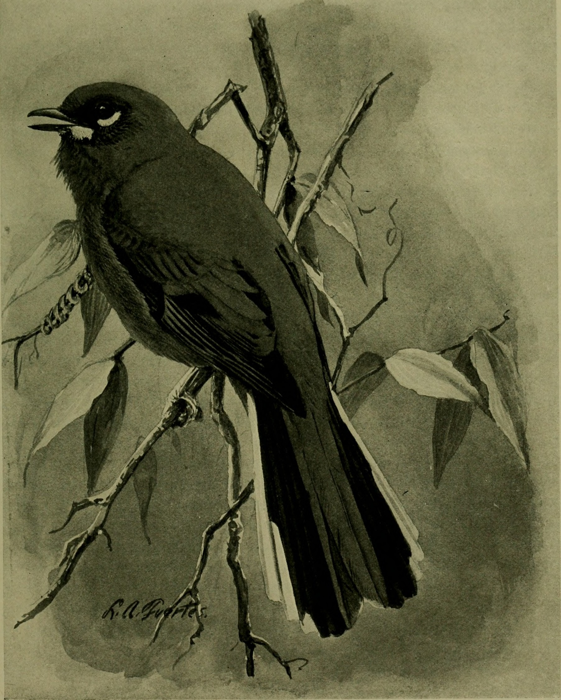 Title: Bird lore Year: 1899 (1890s) Authors: National Committee of the Audubon Societies of America National Association of Audubon Societies for the Protection of Wild Birds and Animals National Audubon Society Subjects: Birds Birds Ornithology Publisher: New York City : Macmillan Co. Text Appearing Before Image: TINAMOU (Crypturus) Impressions of the Voices of Tropical Birds 3 pause; then an exceedingly high trill, swelling and dying. These singerswere common at about five thousand feet, and their choral chanting wasan experience to be long remembered. Myadestes ohscurus, of southernMexico, has a song more spontaneous and overflowing than the other tropicalspecies; I thought of a Bobolink when I first heard it. The song began high inthe scale, and very loud; then through the rich progression of its bubbling Text Appearing After Image: JAMAICAN SOLITAIRE (Myadestes soUtarius) 4 Bird - Lore cadences it gradually fell in pitch and lost volume till it died out, as with lossof breath. This is the Jilguero of the natives, while unicolor is known asClarin. Distinguished from these as jilguero de la tierra are the wrens of thegenus Leucolehis, which have a way of singing at your very feet, hidden underthe ferns and low-growing soft plants of earth. Theirs too, are violin tones, and,though the songs are not rare, the singer is seldom seen, however patiently yousearch or wait for him in the mosquito-ridden air of his dripping haunts. It hasalways seemed a mystery to me how these little birds of the cloud-forest keepdry. They are, indeed, the only dry thing you would encounter in a weekshunt, for overhead all is oozing water, all the leaves are shiny-wet, and underfoot is soaking, rotting vegetable mold or deep muddy ooze, that frequentlylets you in over your boot-tops. In the same forests that shelter the Tinamou and Solitai